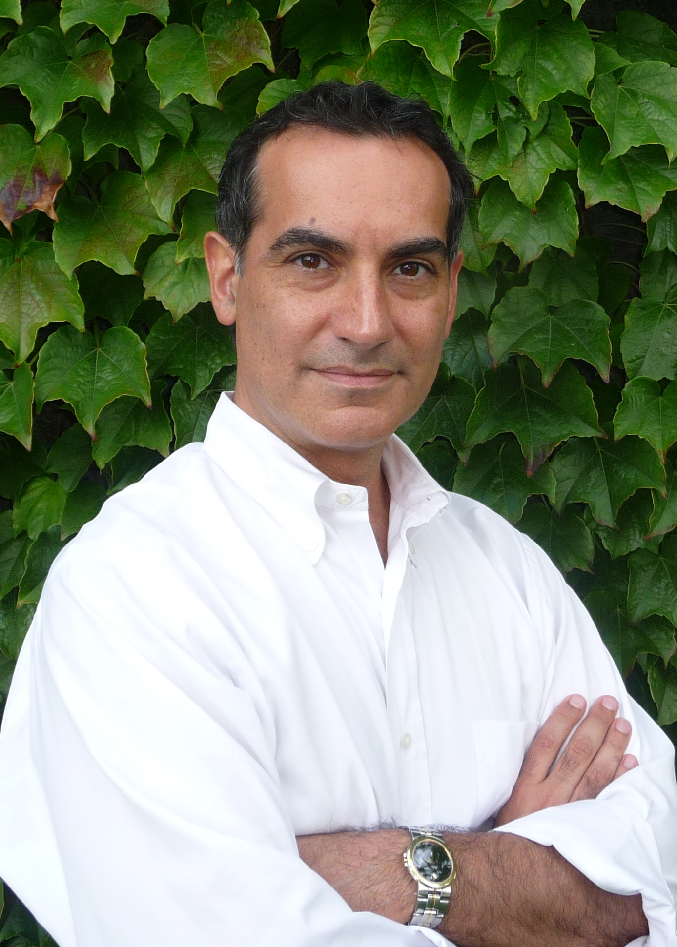 Dr. James M. Cantor on the University of Toronto Campus, Sept. 2010